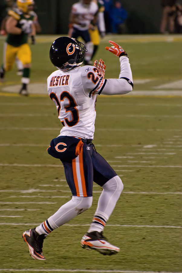 Chicago Bears vs. Green Bay Packers at Lambeau Field on December 25, 2011. Photo by Mike Morbeck.